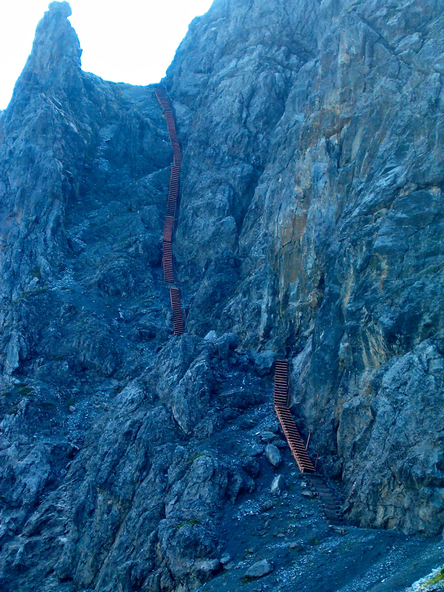 Hiking track "Schanfigger Höhenweg", section "Tritt", near Arosa